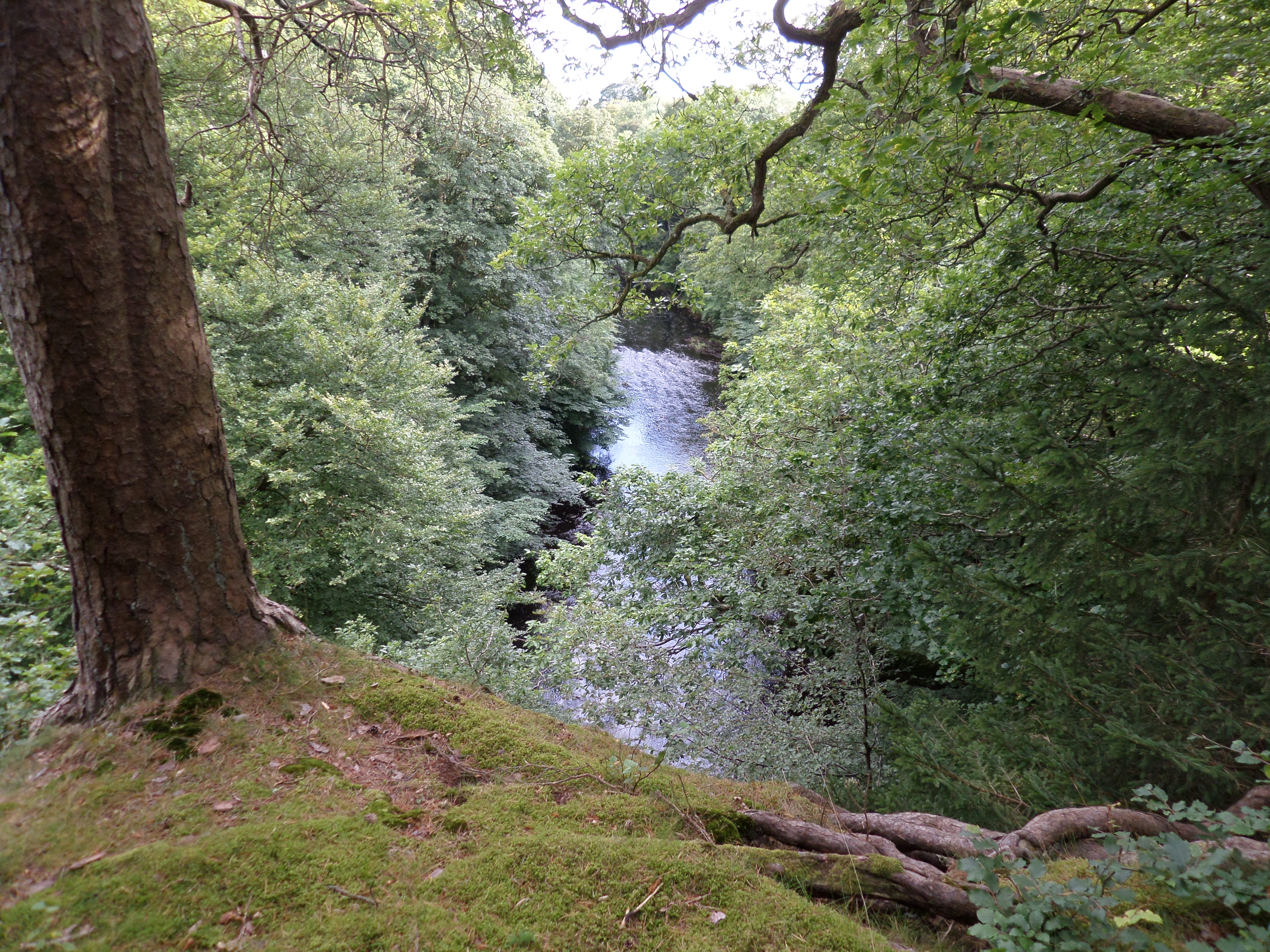 Ochiltree Castle, East Ayrshire, Scotland - the motte summit and view of the Lugar.